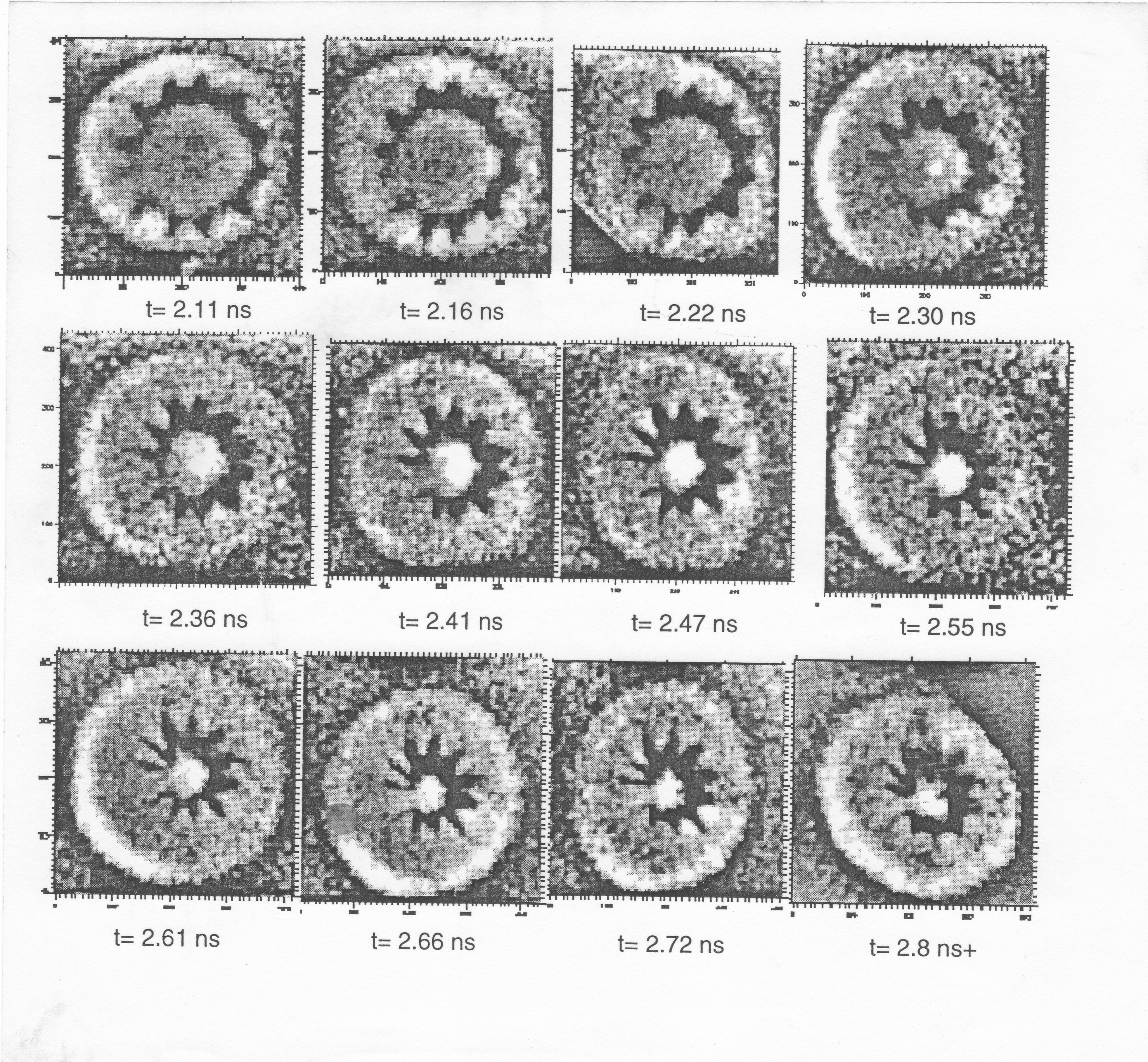 Cylindrical implosion at NOVA laser facility showing the Rayleigh-Taylor Instability